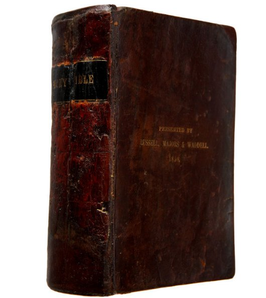 Pony Express Bible 1858